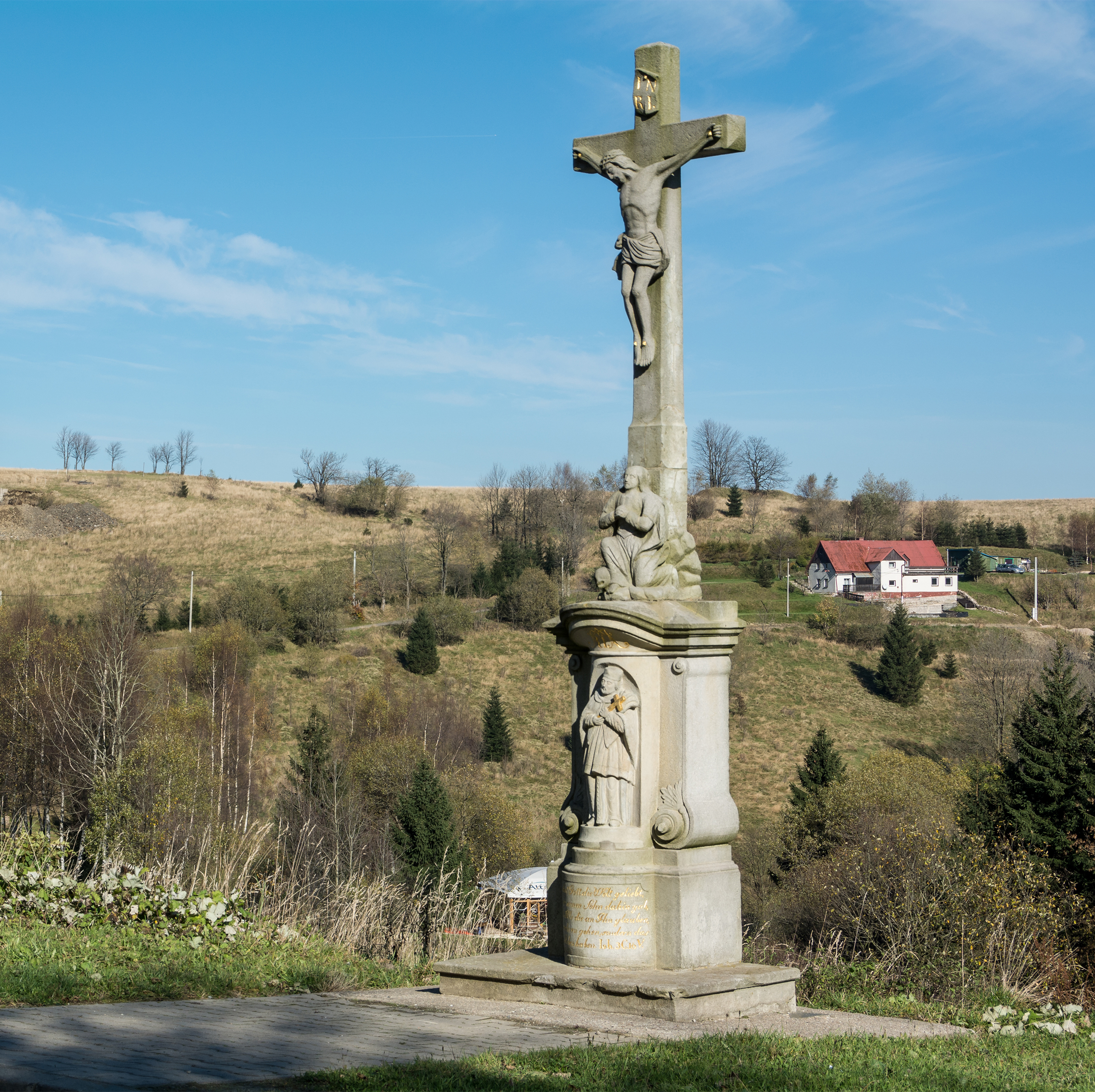 Wayside cross in Zieleniec